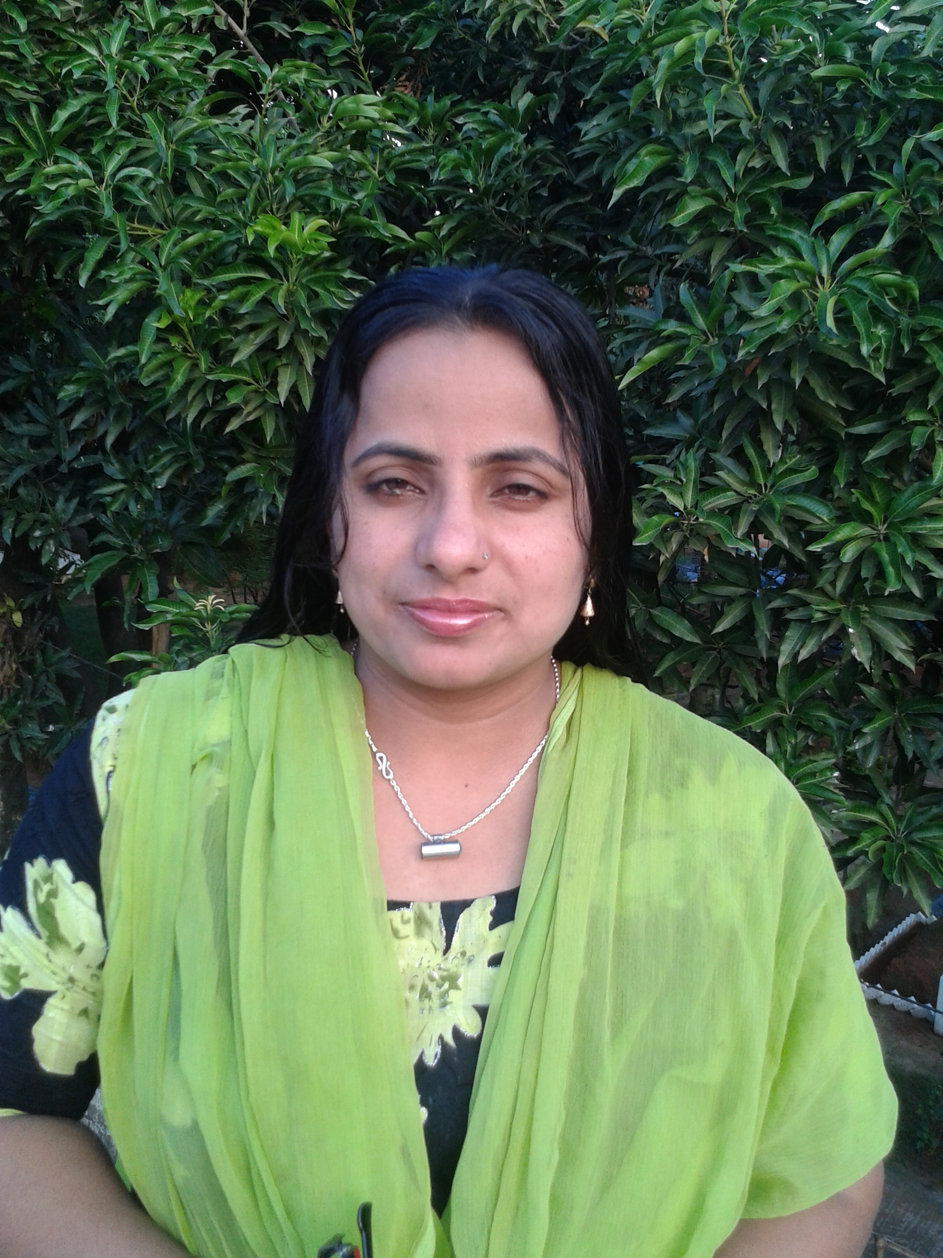 বাংলাদেশের প্রথম নারী ট্রেন চালক সালমা খাতুন। ২০০৪ সালে সহকারী চালক হিসেবে রেলওয়েতে যোগ দেন টাঙ্গাইলের এই নারী।